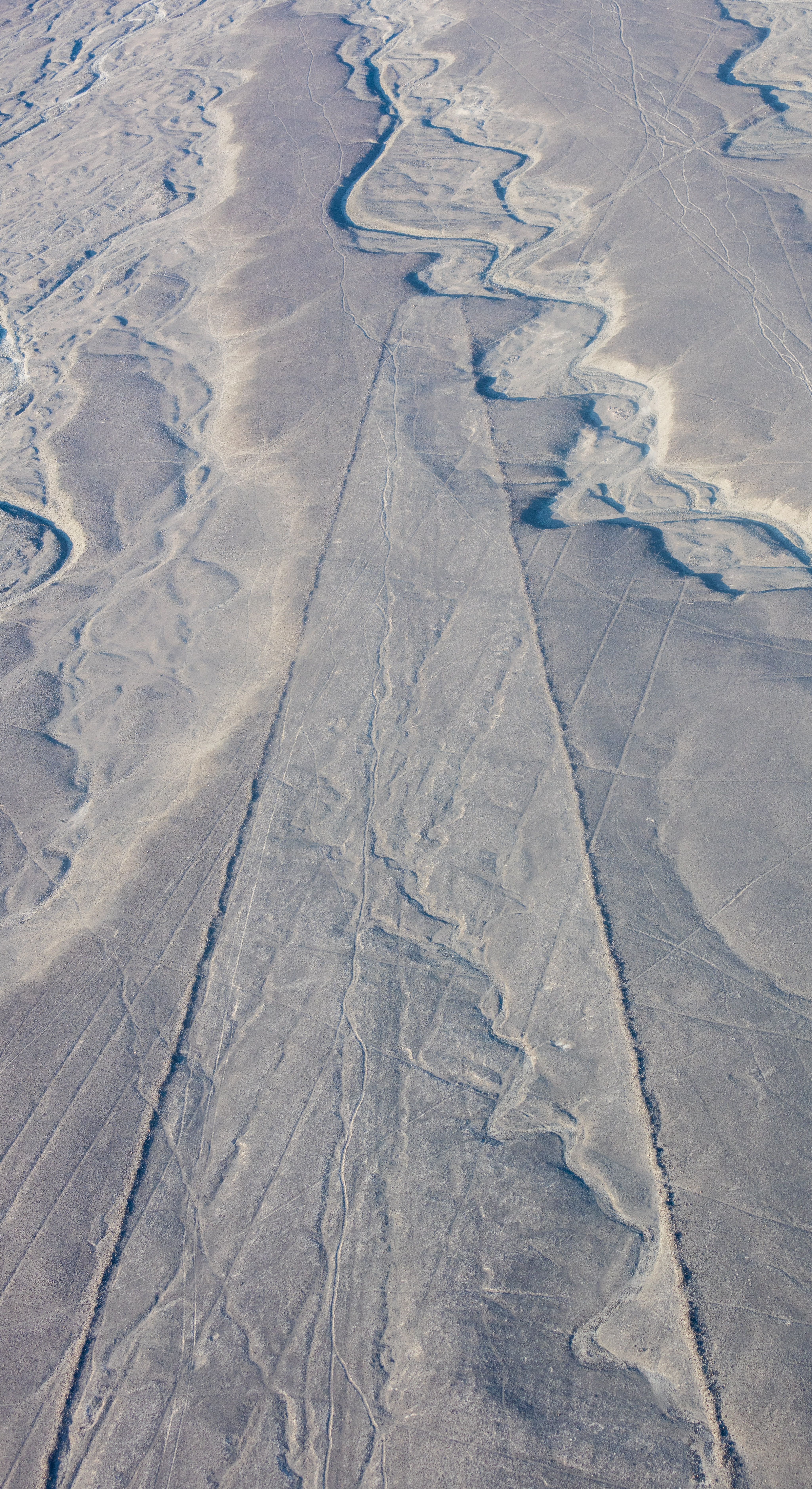 Nazca Lines, Nazca, Peru